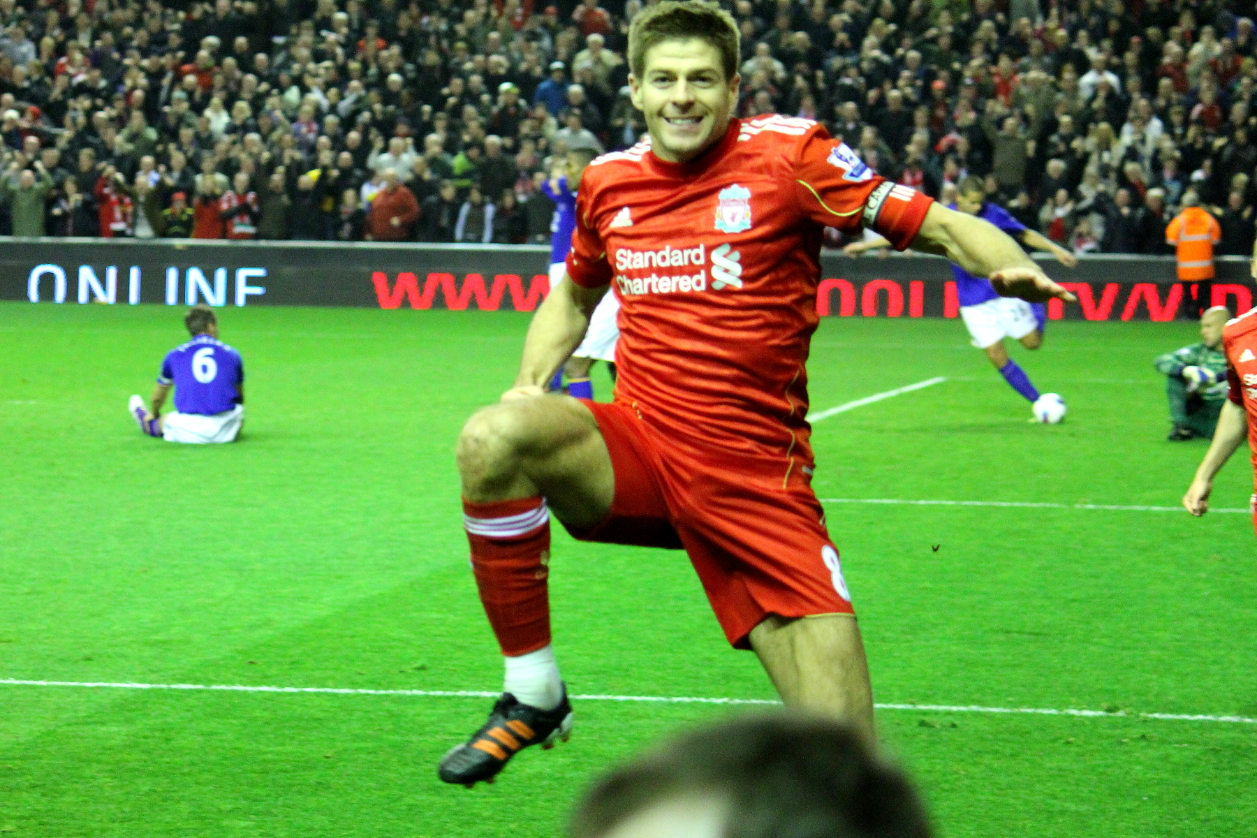 Steven Gerrard celebrating scoring a goal against Everton in 2012 Merseyside Derby.